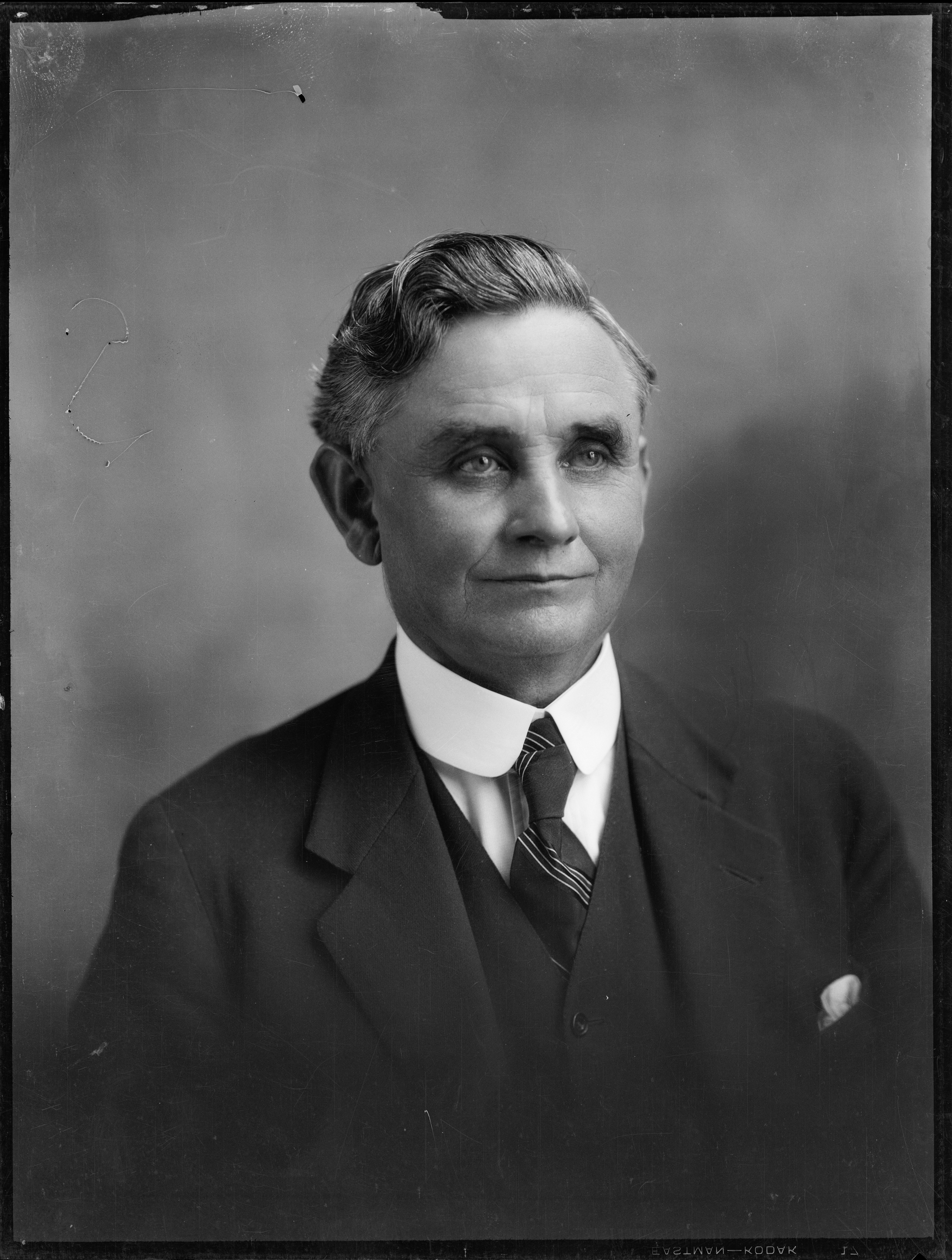 Michael Joseph Savage 23rd Prime Minister of New Zealand.